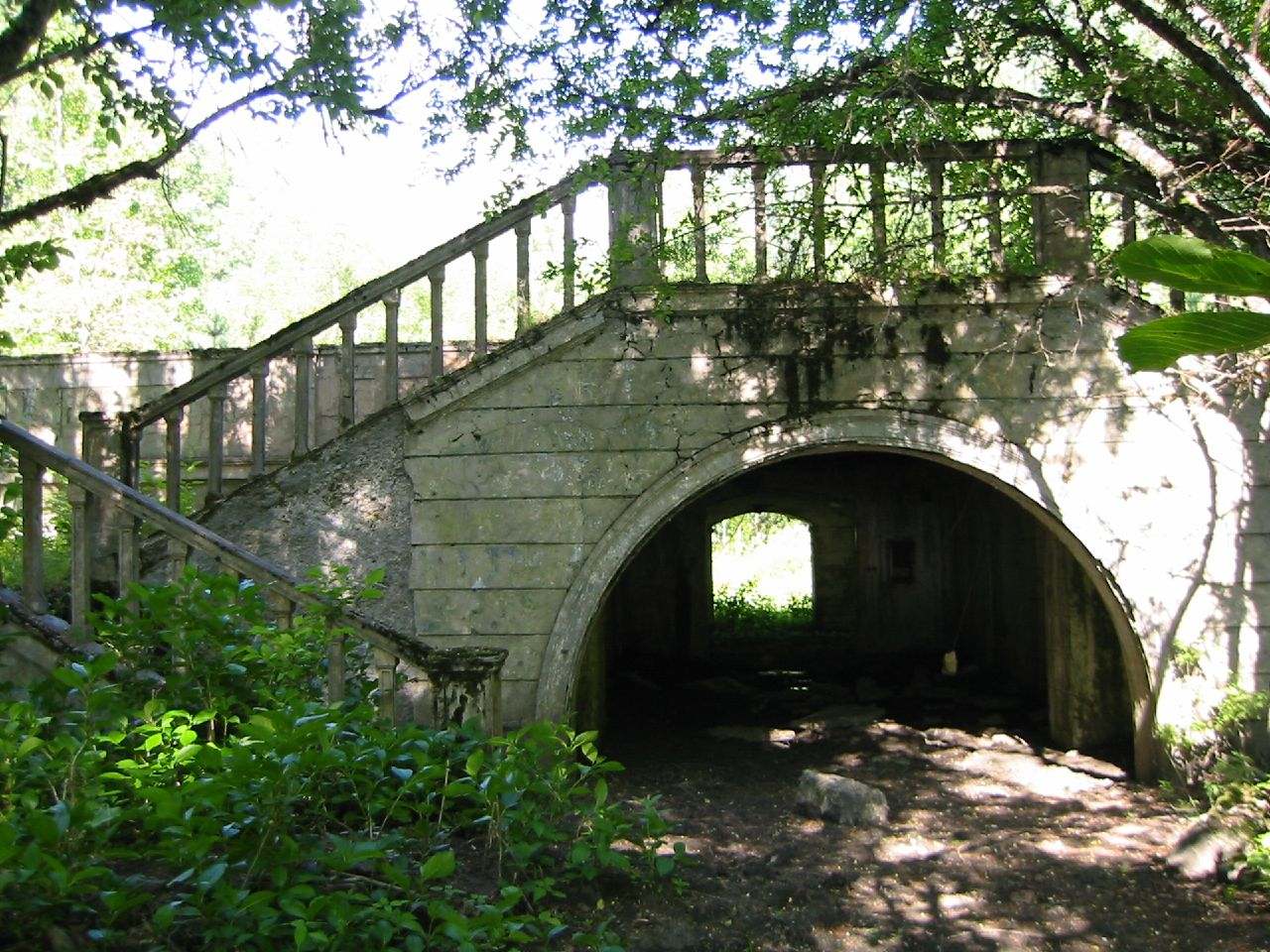 Ruins of Joseph Stalin's summer-house by the lake Ritsa.